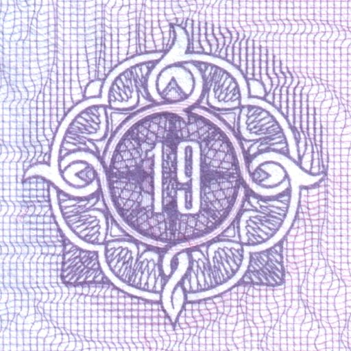 A fragment of a page of Russian passport. Uneven page numbers are surrounded with an ornament with three stylized “6” (even page numbers have the same ornament in mirror).